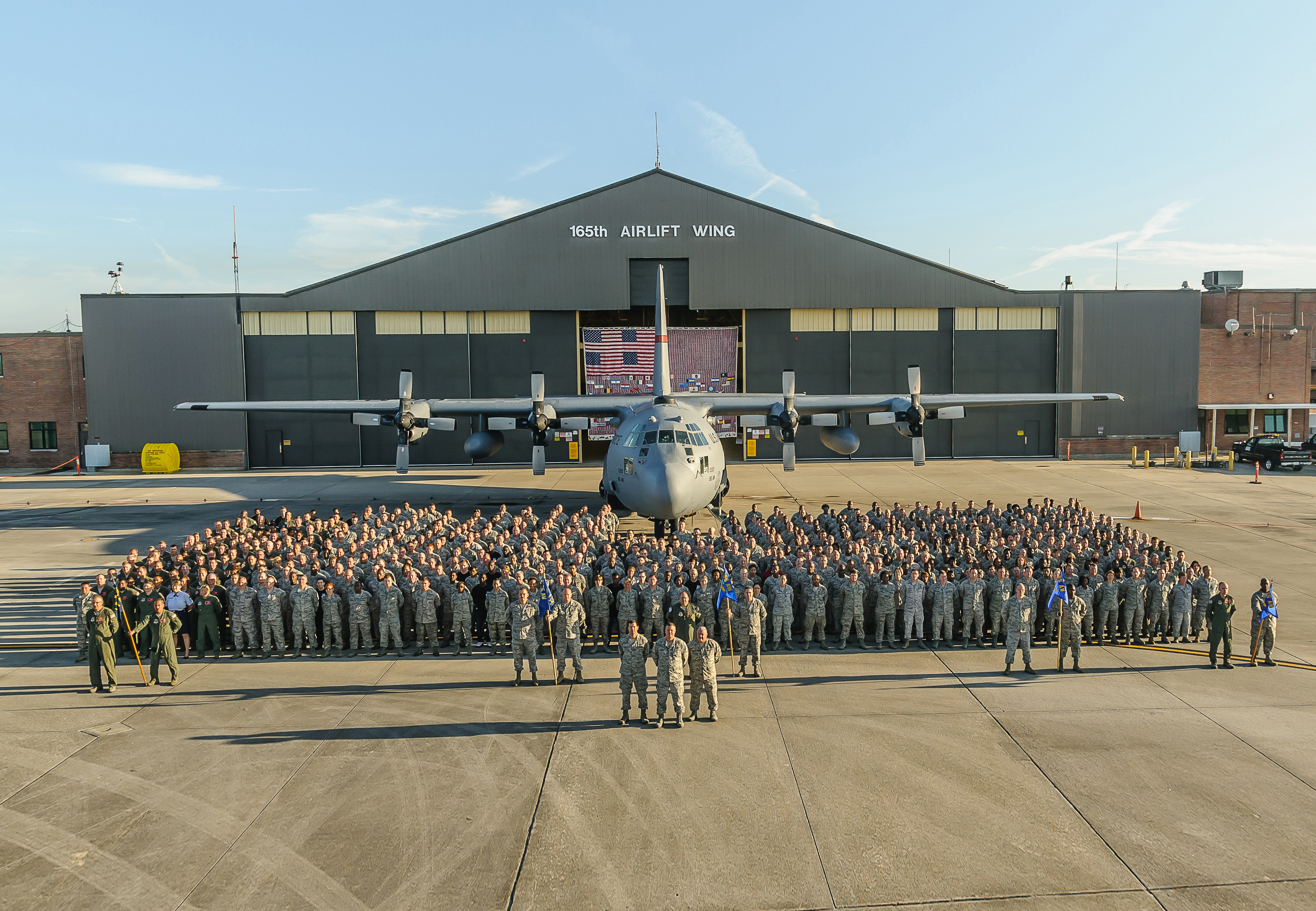 National Guard Airmen from the 165th Airlift Wing stand in front of a C-130H Hercules, Sept. 16, 2012 at Savannah Air National Guard Base in Garden City, Ga. (National Guard photo by Master Sgt. Bucky Burnsed/released)(120916-Z-ZZ999-001)